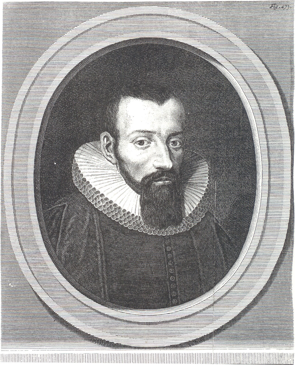 Bartholomaeus Keckermann (1572-1609)